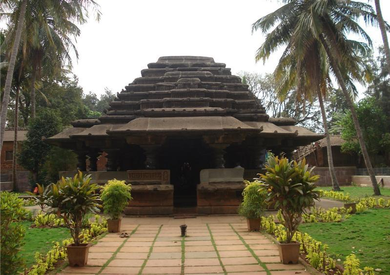 Kamal Basadi Jain temple in Belgaum. Karnataka (North), India